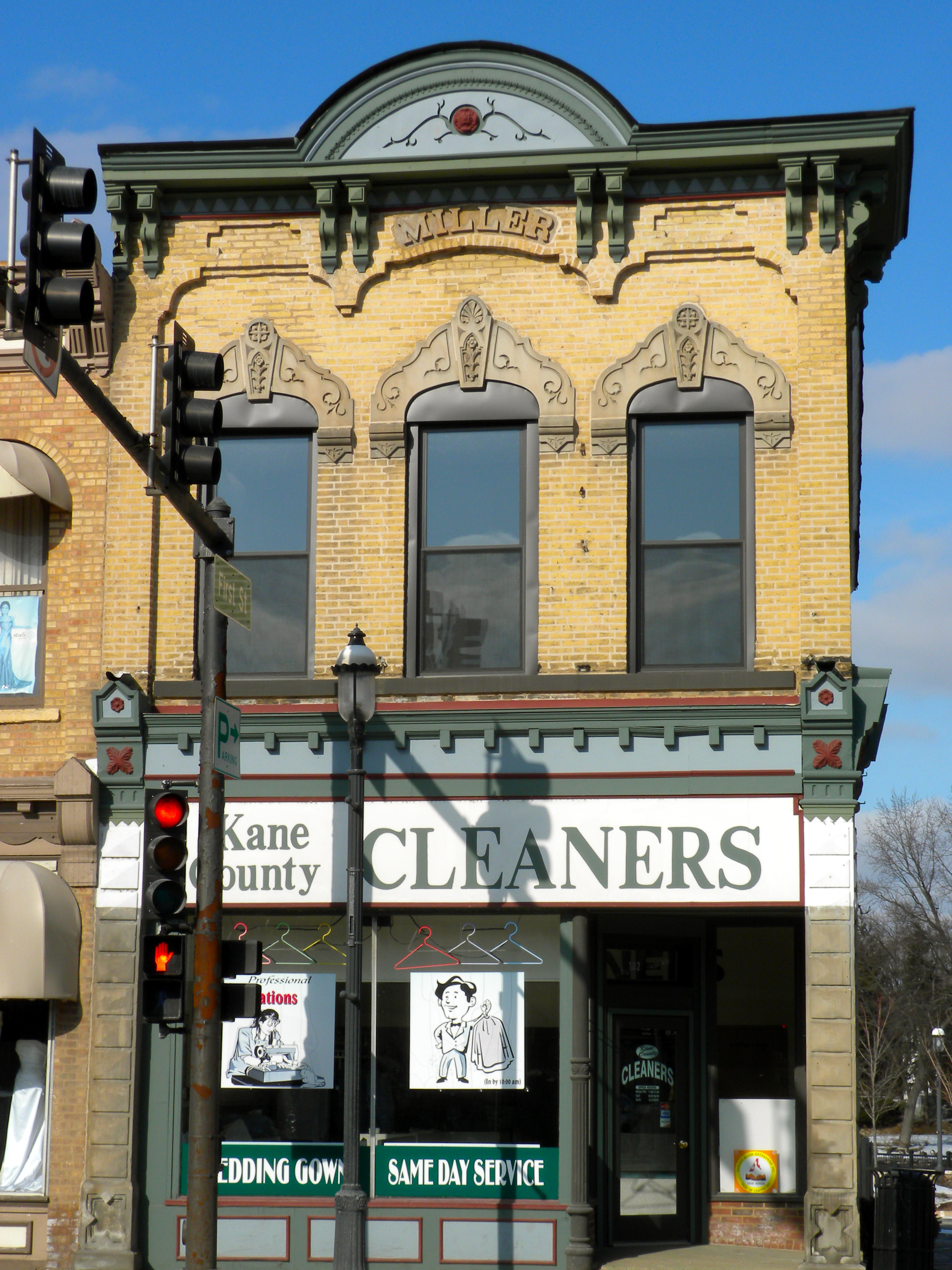 The Miller Building in West Dundee, Illinois, housing Kane County Cleaners. On Main Street and First Ave. near the bridge over the Fox River. This is in the NRHP Dundee Historic district